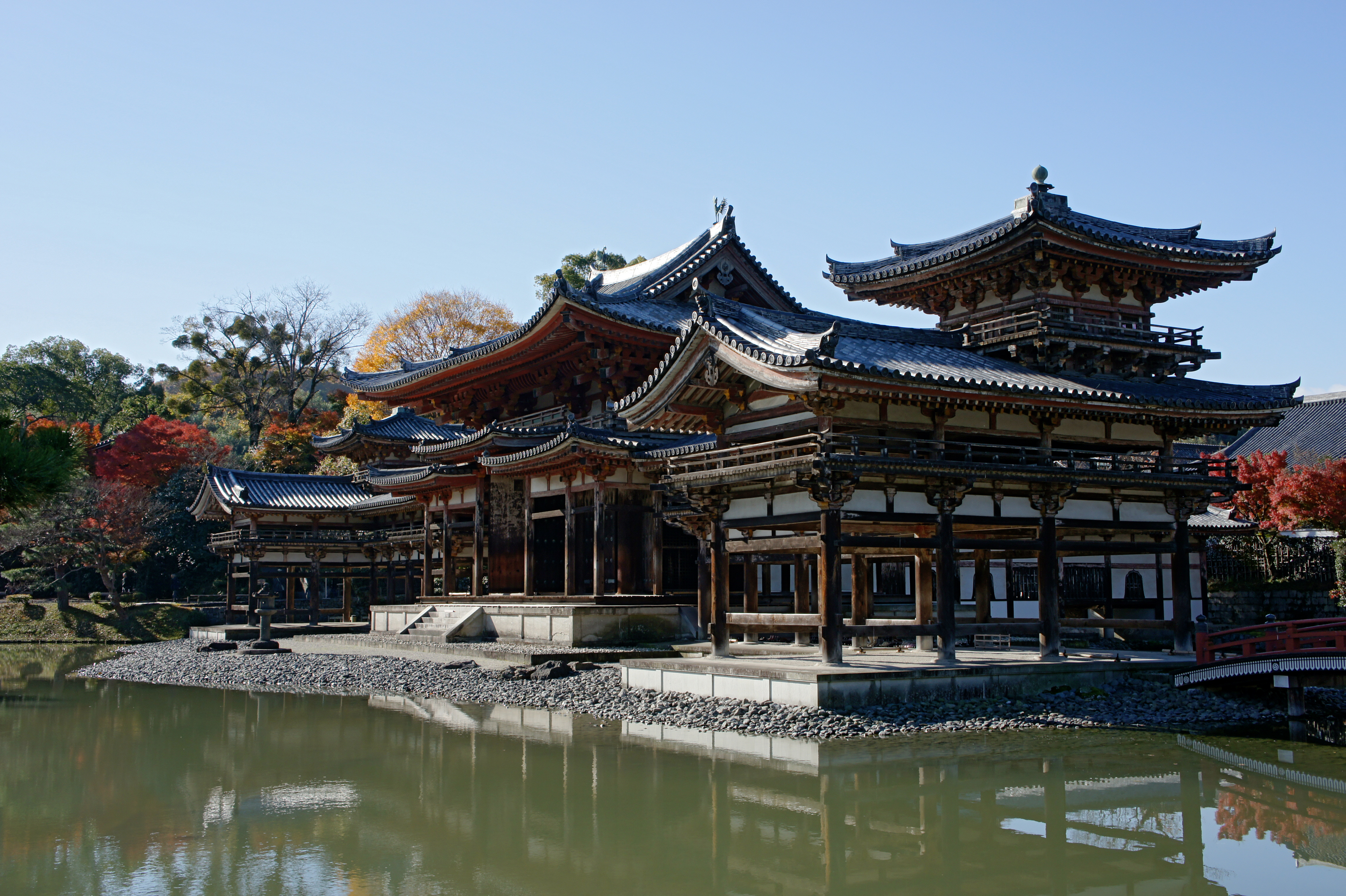 Byōdō-in's Phoenix Hall is a Japan's National Treasure in Uji, Kyoto prefecture, Japan It was built in 1153. Byōdō-in was registered as part of the UNESCO World Heritage Site "Historic monuments of ancient Kyoto".